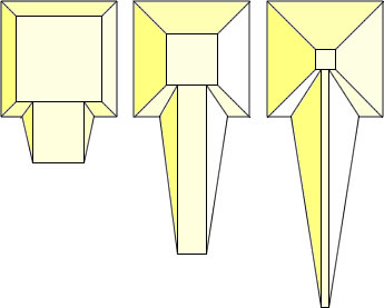 R. Scott Hussey-Pailos Quickly drawn, and simple figure